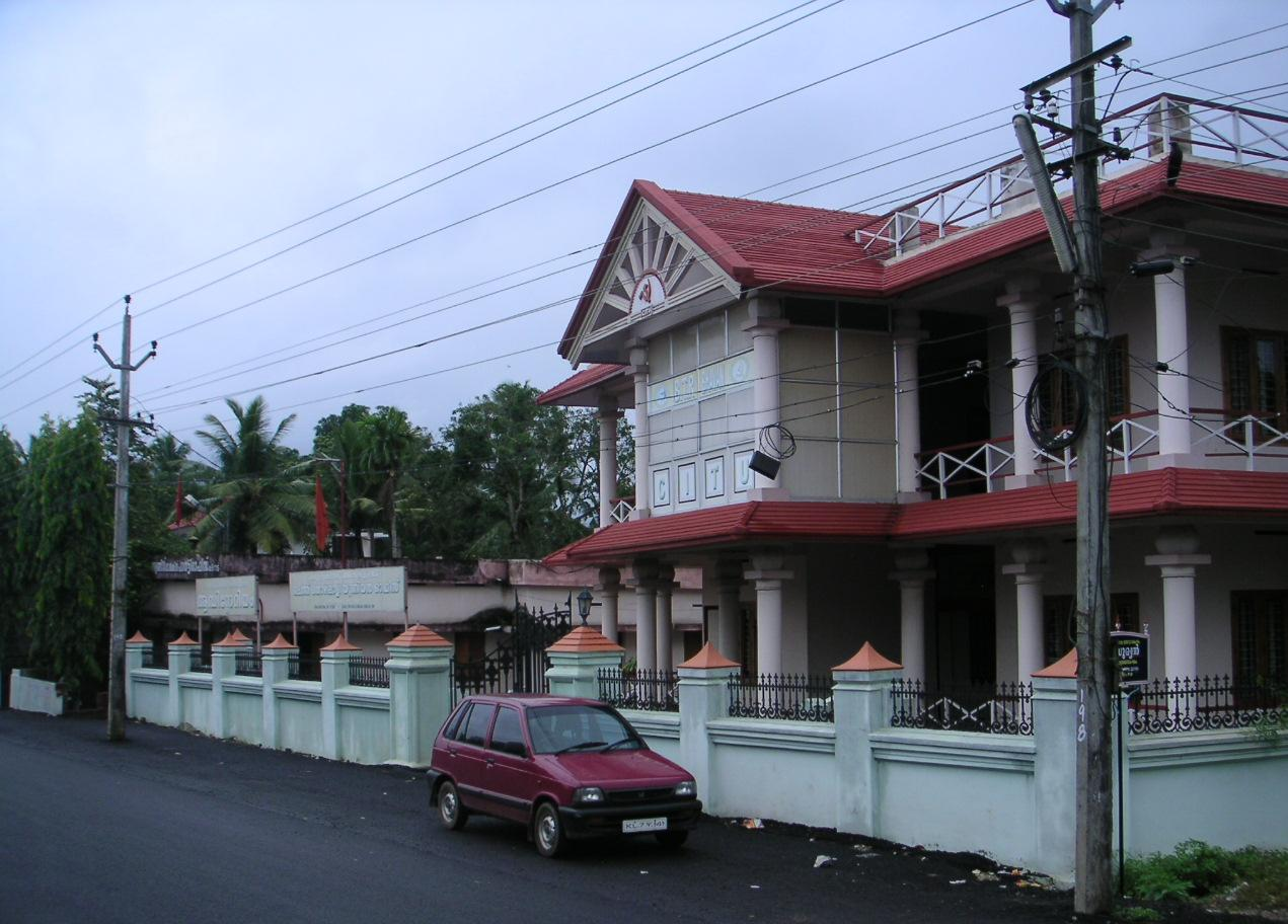 BTR Bhavan, CITU office in rural Kerala. Photo: Soman